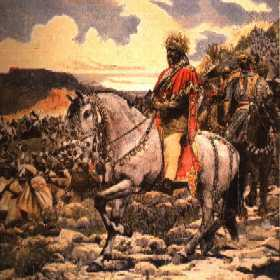 Page from old french newspaper "Le Petit Journal" depicting Menelik II at the battle of Adwa